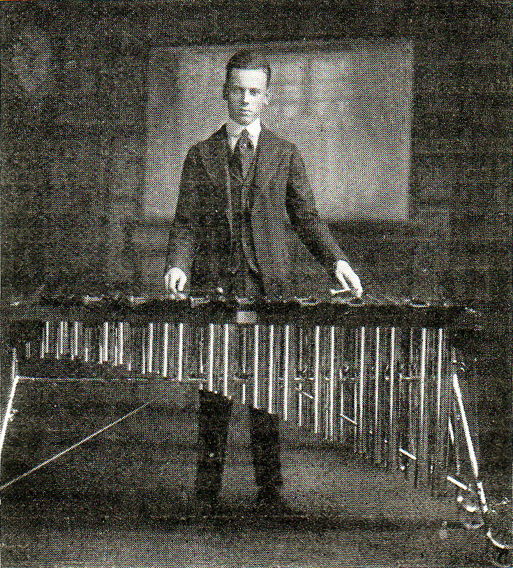 George Hamilton Green, xylophonist. From "Edison Amberola Monthly", December 1918, page 7. Archival source: Thomas Edison National Historical Park, National Park Service.